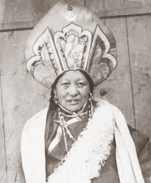 From Ani Samten